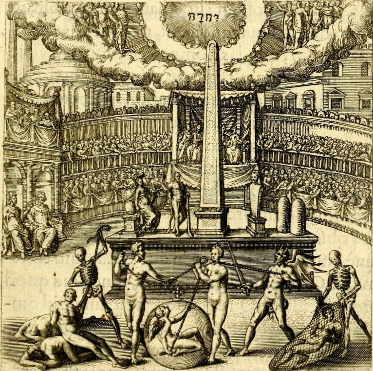 Emblem from Boissard's Theatrum himanae vitae, AD 1596